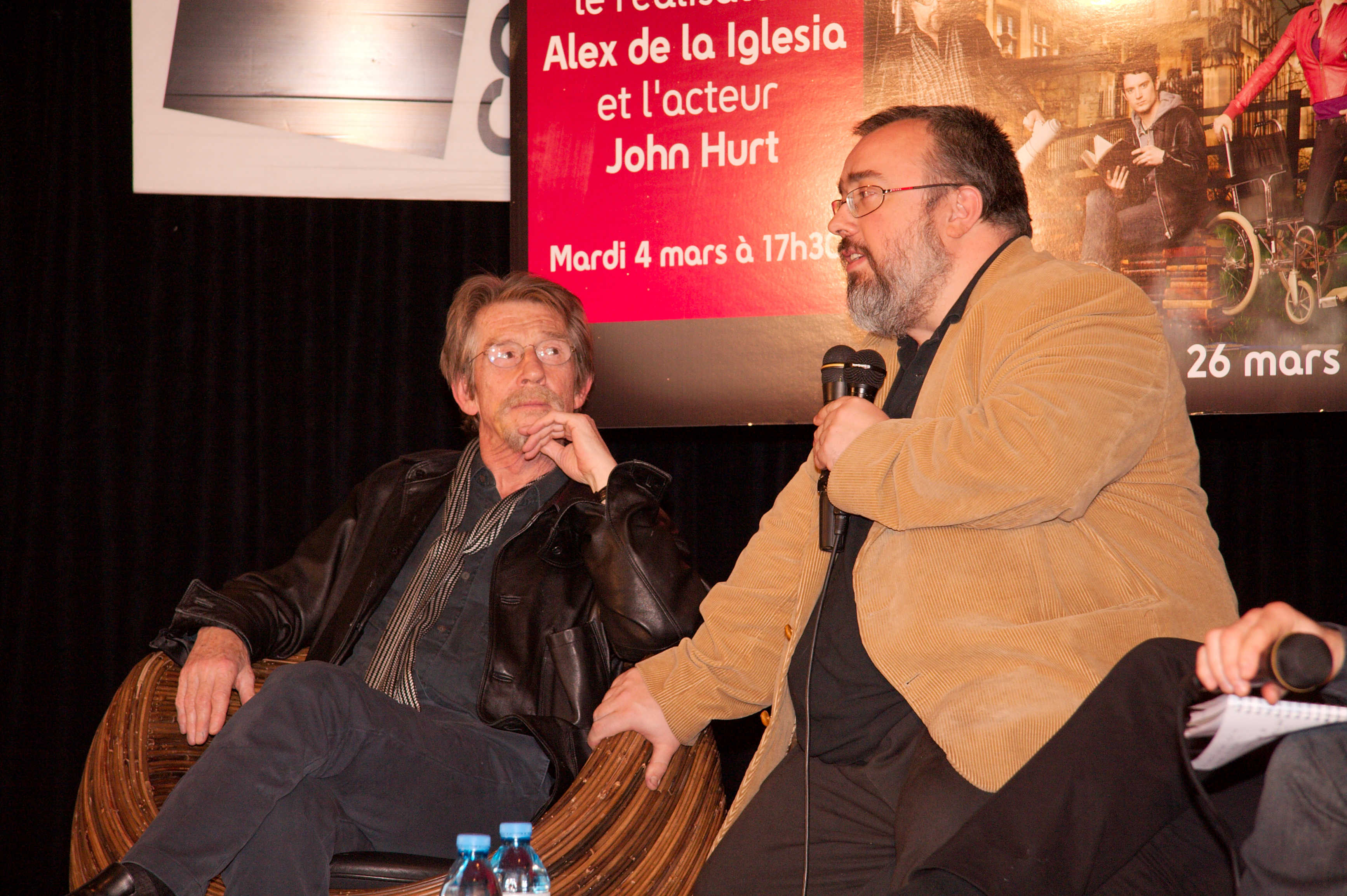 Rendezvous with John Hurt and Álex de la Iglesia at Fnac des Ternes (Paris, France).